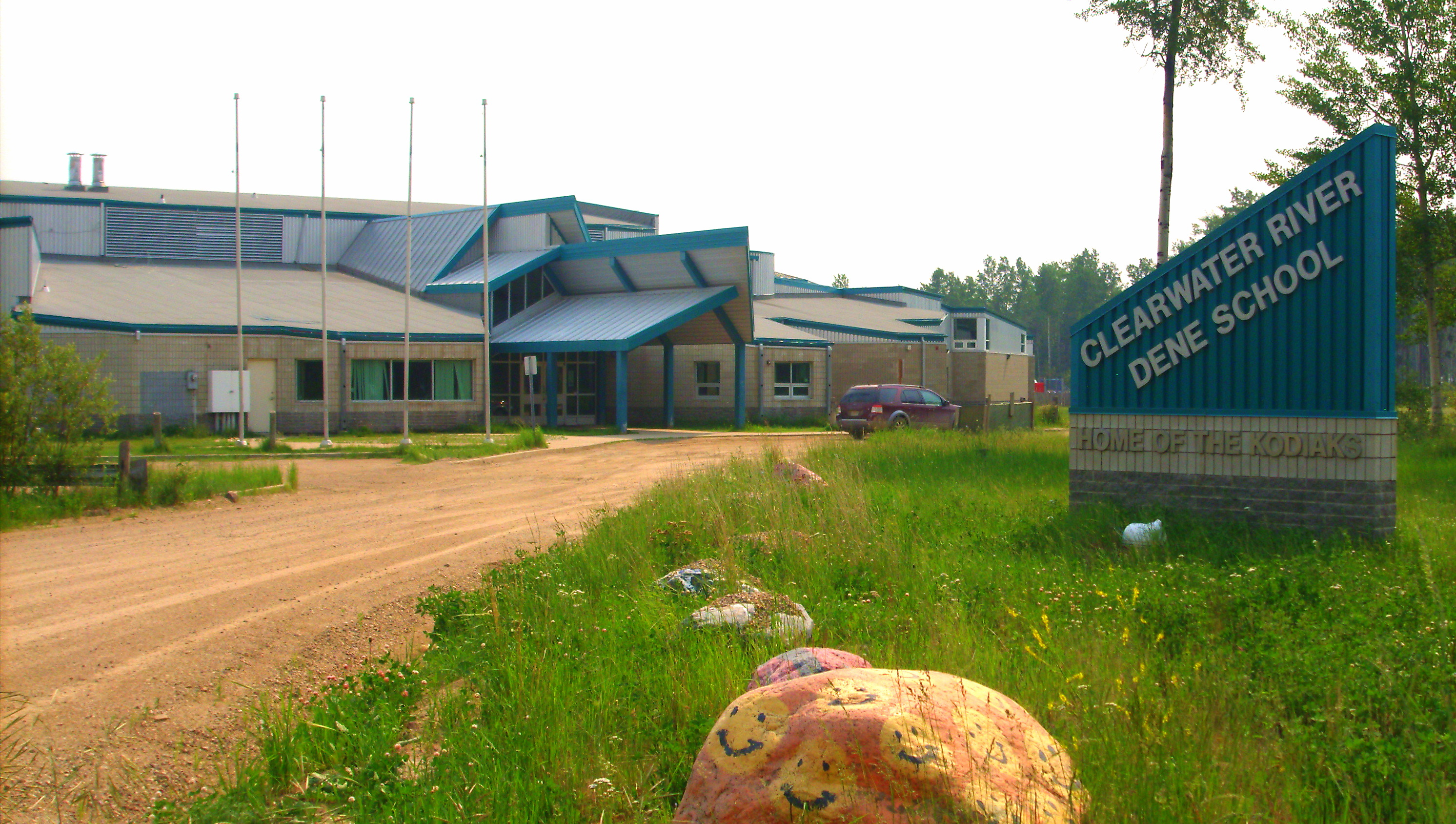 Clearwater River Dene School in 2015